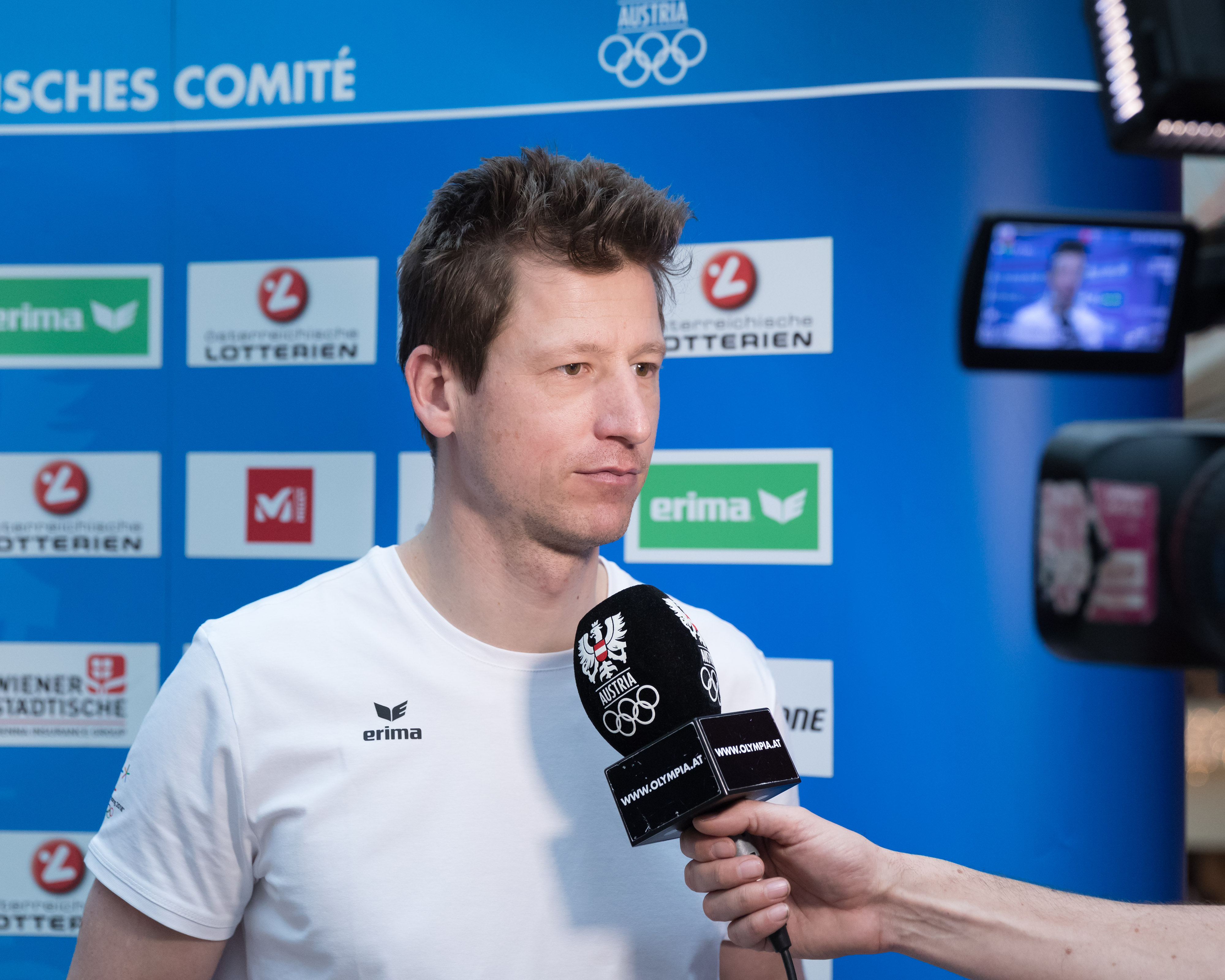 Hannes Reichelt at the outfitting of the Austrian team for the 2018 Winter Olympics (Hotel Marriott in Vienna, Austria.